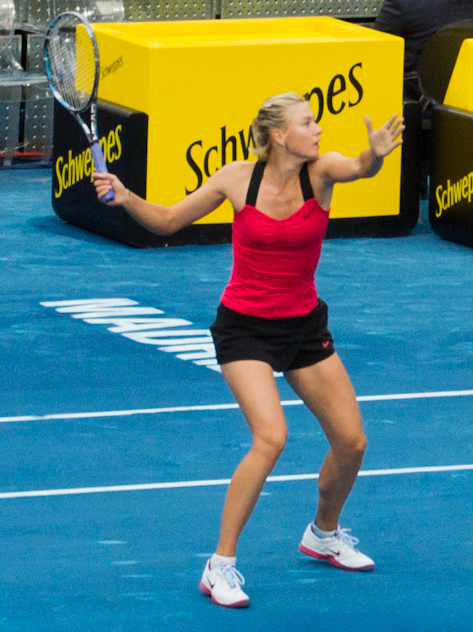 Marija Šarapova at Mutua Madrid Open 2012